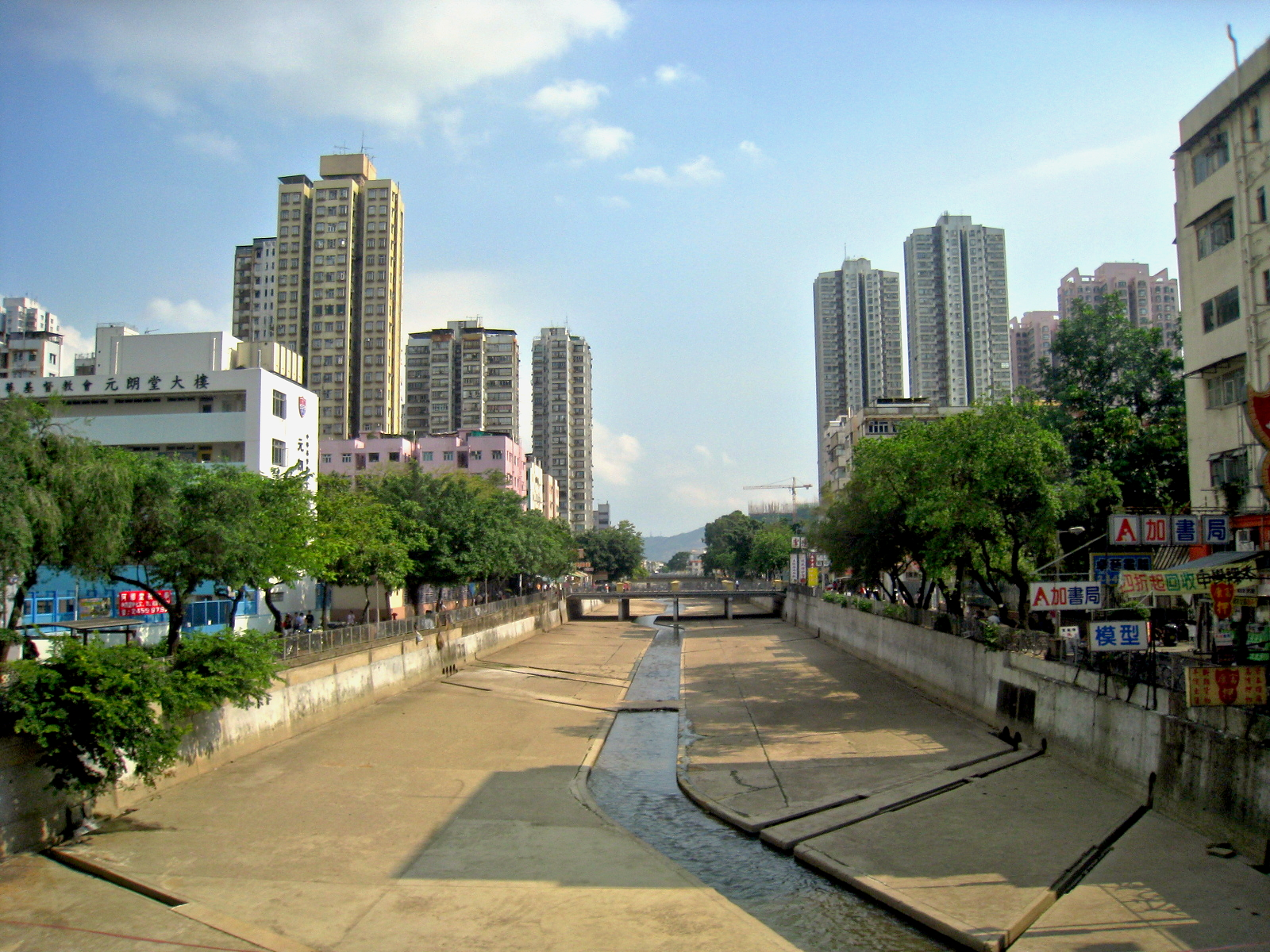 Shan Pui River Yuen Long Town Centre Section 山貝河流經元朗市中心